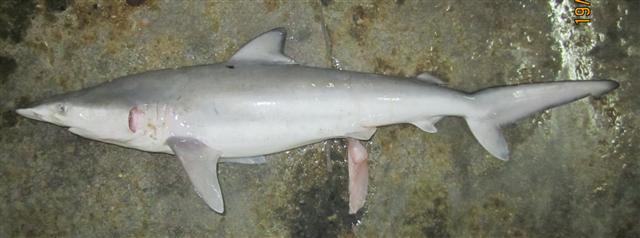 Copper shark (Carcharhinus brachyurus) at Phuket Fishing Port, Thailand